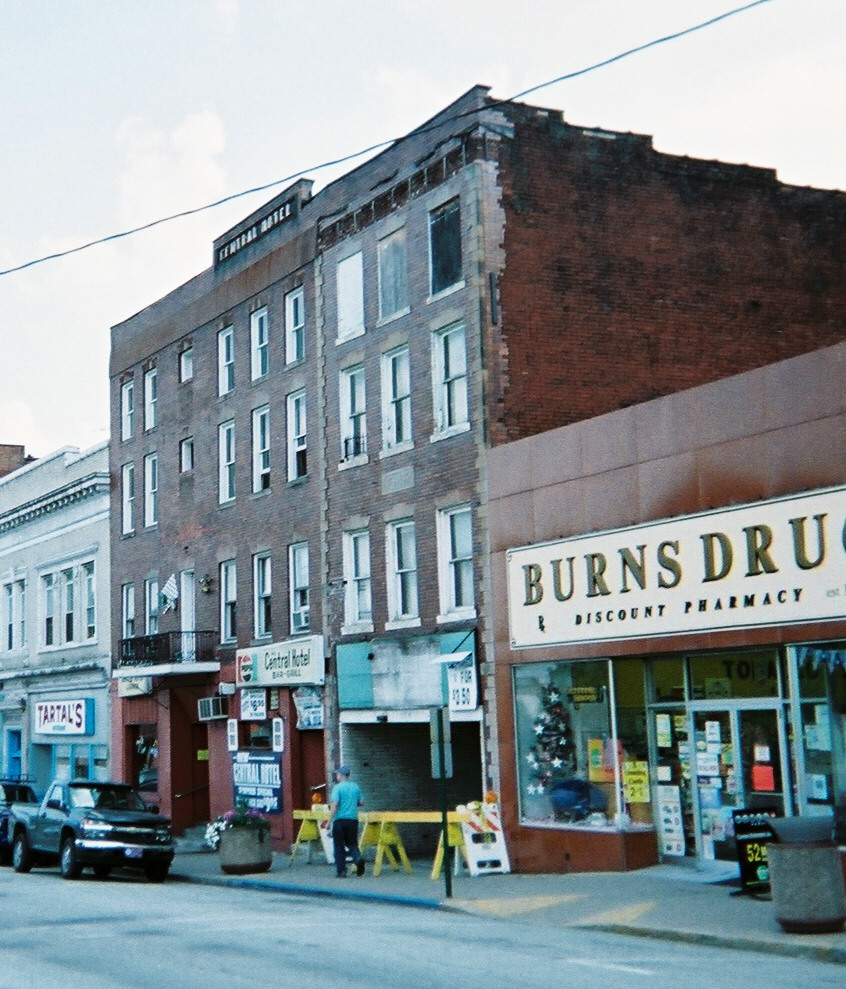 Central Hotel at 125 Pittsburgh Street, Scottdale, Pennsylvania. Built approximately 1910.